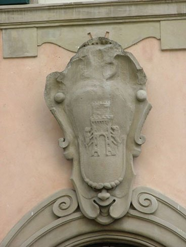 Torriani of Marradi (Tuscany) coat of arms, located on Torriani's mansion facade at Marradi